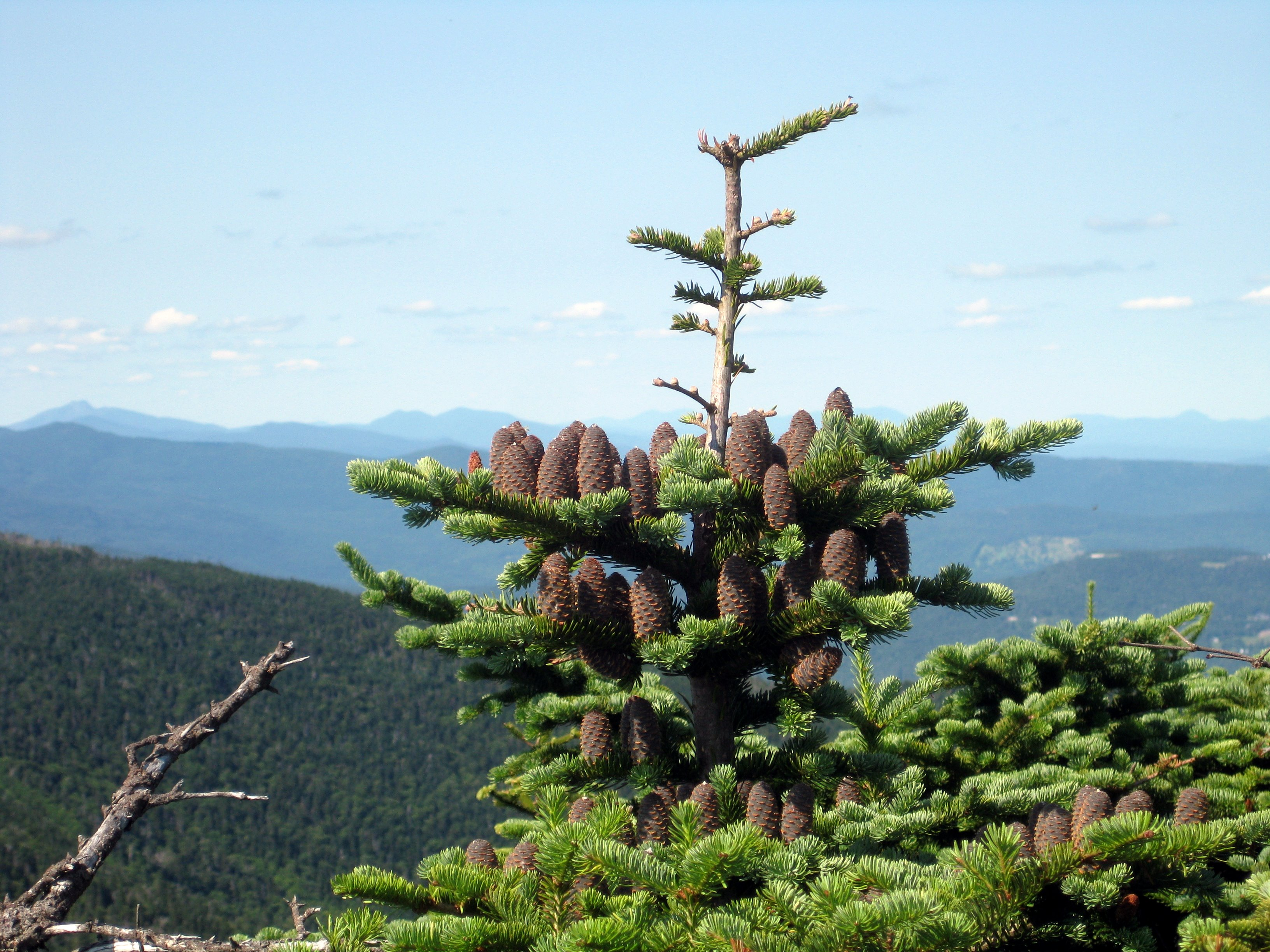 Abies balsamea var. phanerolepis foliage and cones. Top of Lincoln Peak, Warren, Vermont, USA; altitude 1212 m.